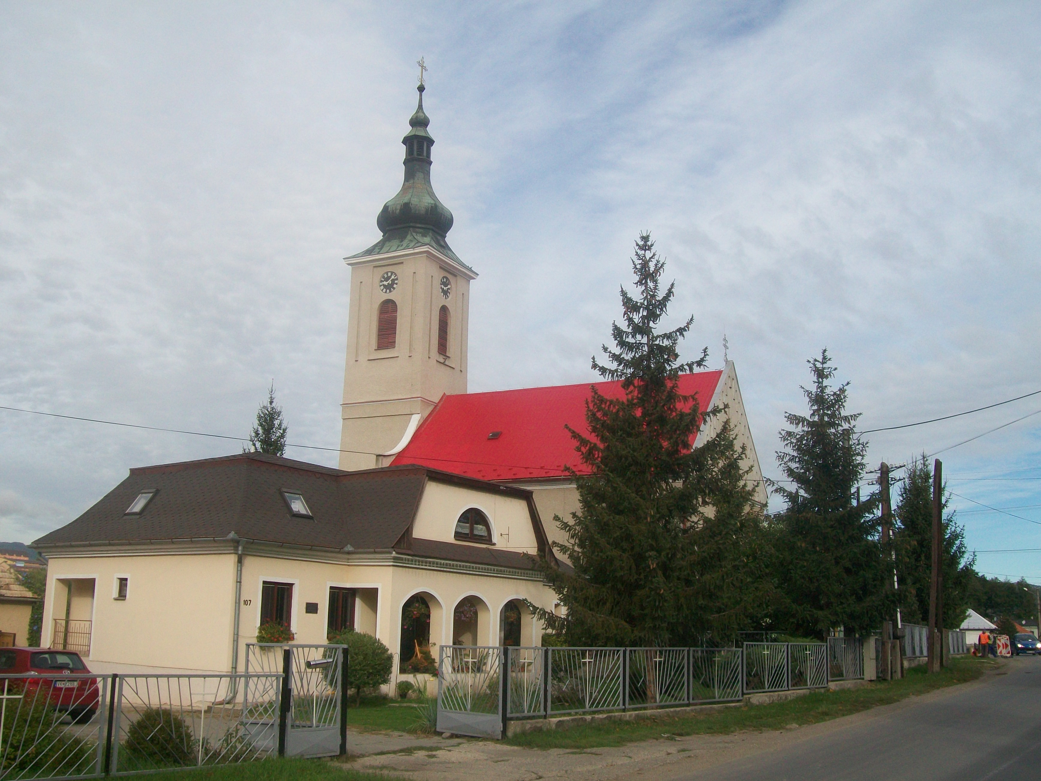 Lutheran church and parsonage in Veľký KrtíšSlovenčina: Evanjelický kostol a fara vo Veľkom Krtíši Object location48° 12′ 19.33″ N, 19° 20′ 39.23″ E